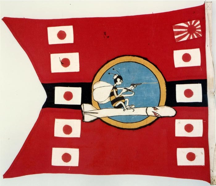 USS Balao (SS-285). Copy of the submarine's World War II battle flag.